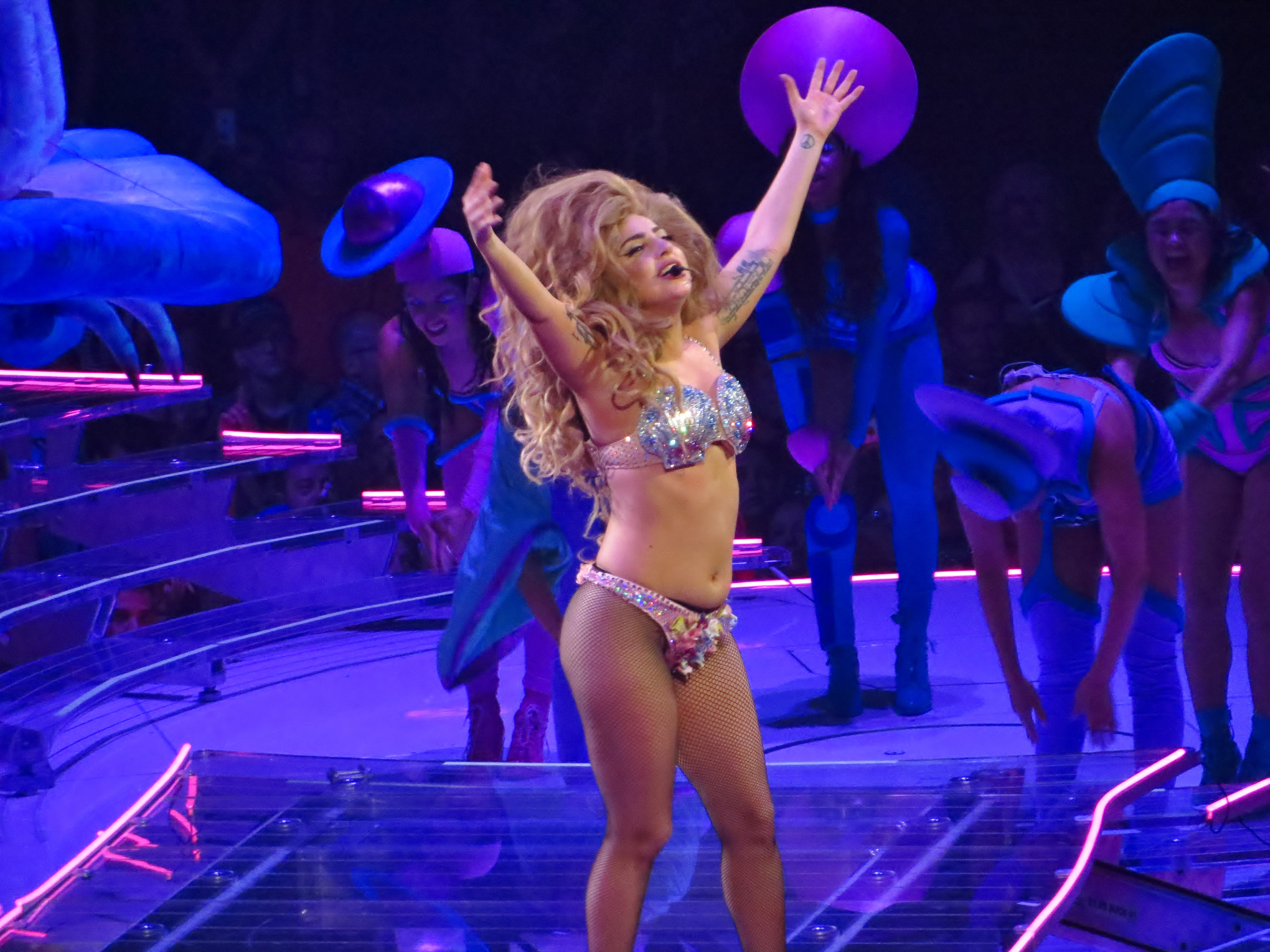 Lady Gaga, ARTPOP Ball Tour, Bell Center, Montréal, 2 July 2014 (20) Gaga performing on ArtRave: The Artpop Ball tour